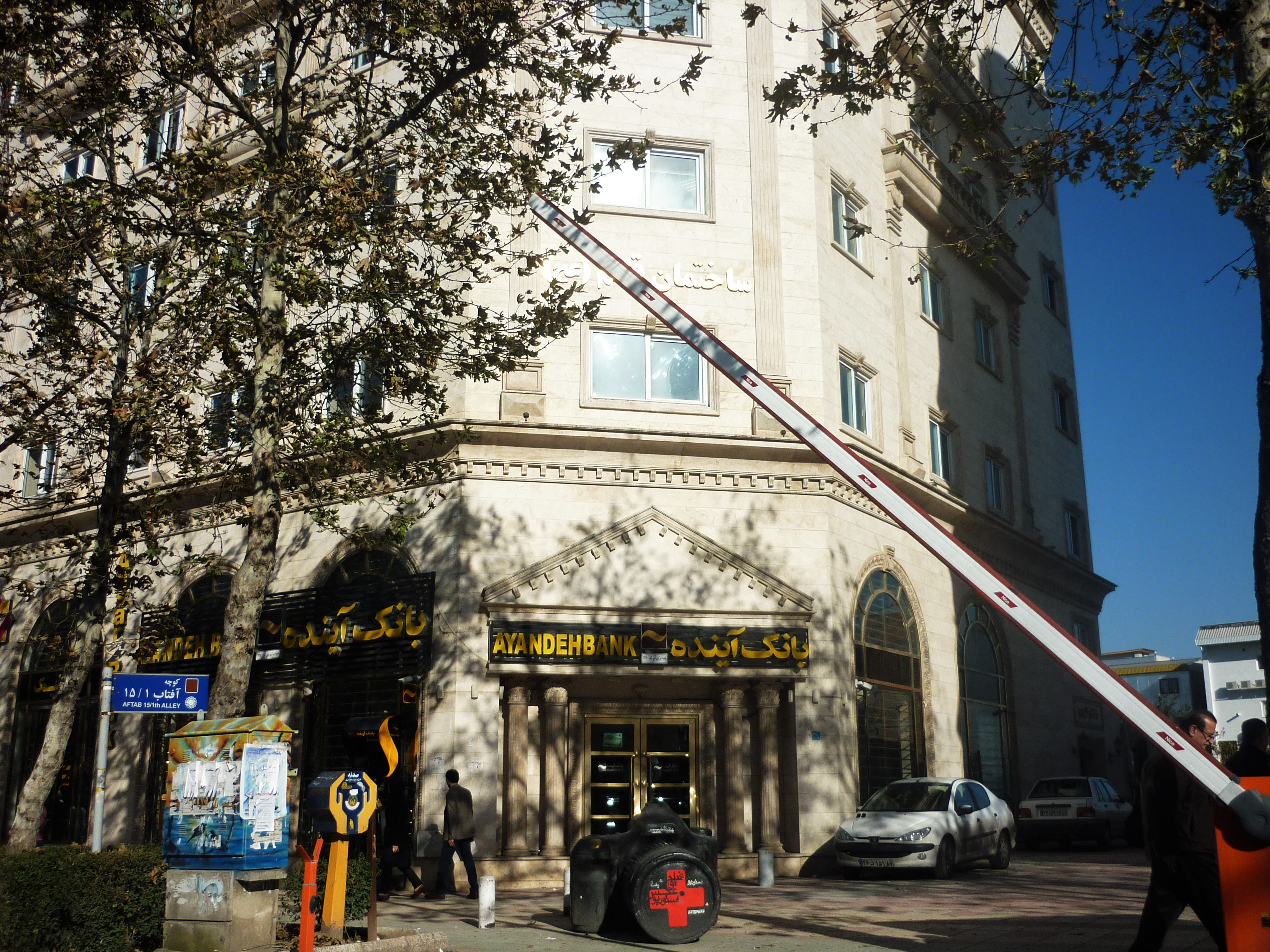 A bank branch in Haraz Street